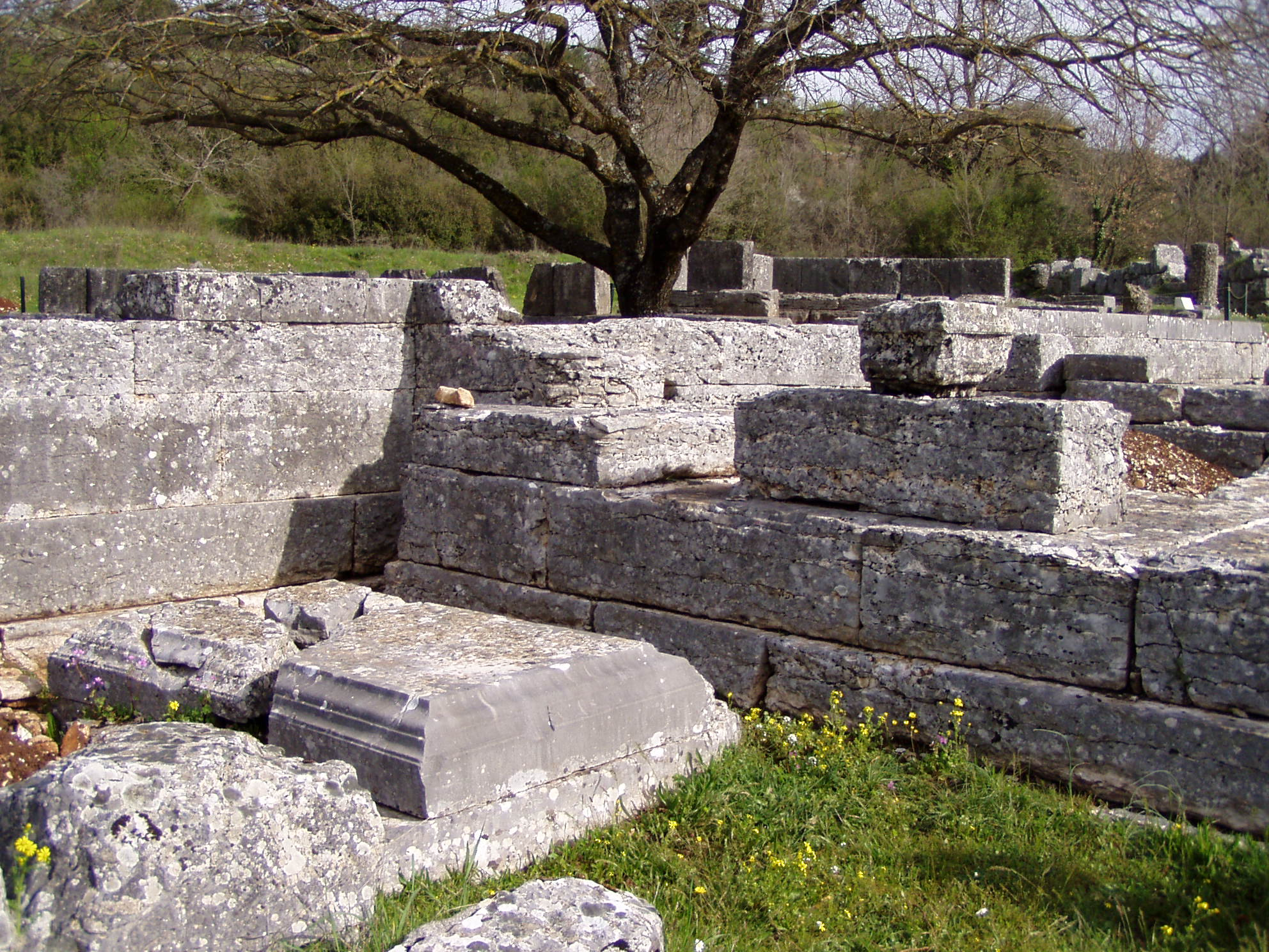 This is the Temple of Zeus in Dodona.